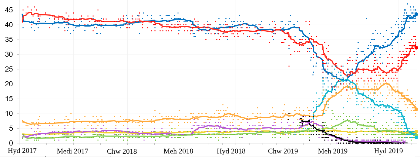 The graph shows polls conducted for the 2019 UK general election, including polls released by 29 September 2018. The trendline is based on the average of the last 15 polls.